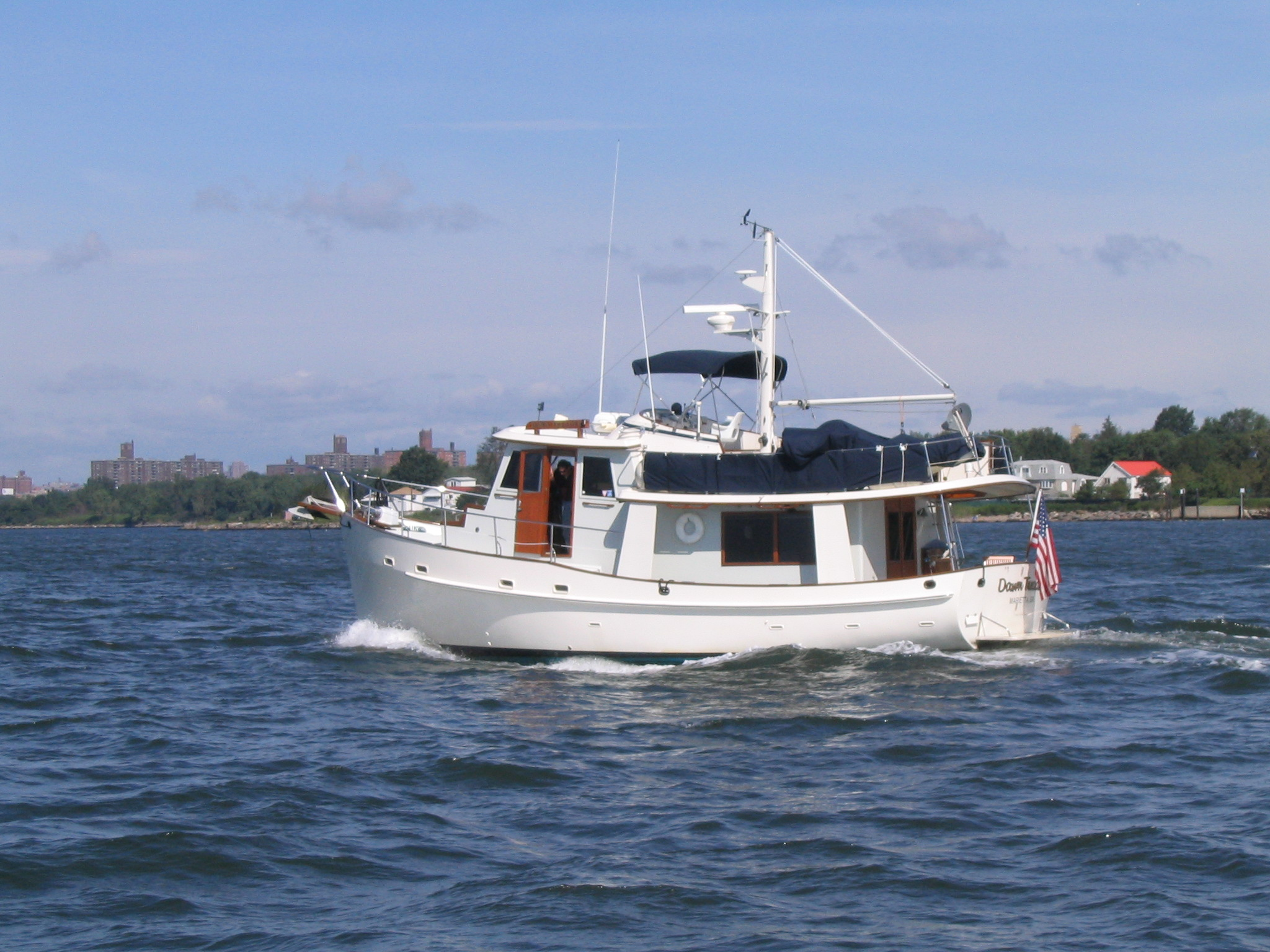 A cruising trawler, NYC Summer 2006